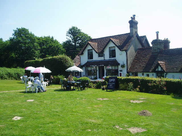 Duddleswell tea Rooms. These tea rooms have been serving since 1935 ! It makes a good stop after exploring the Ashdown Forest.